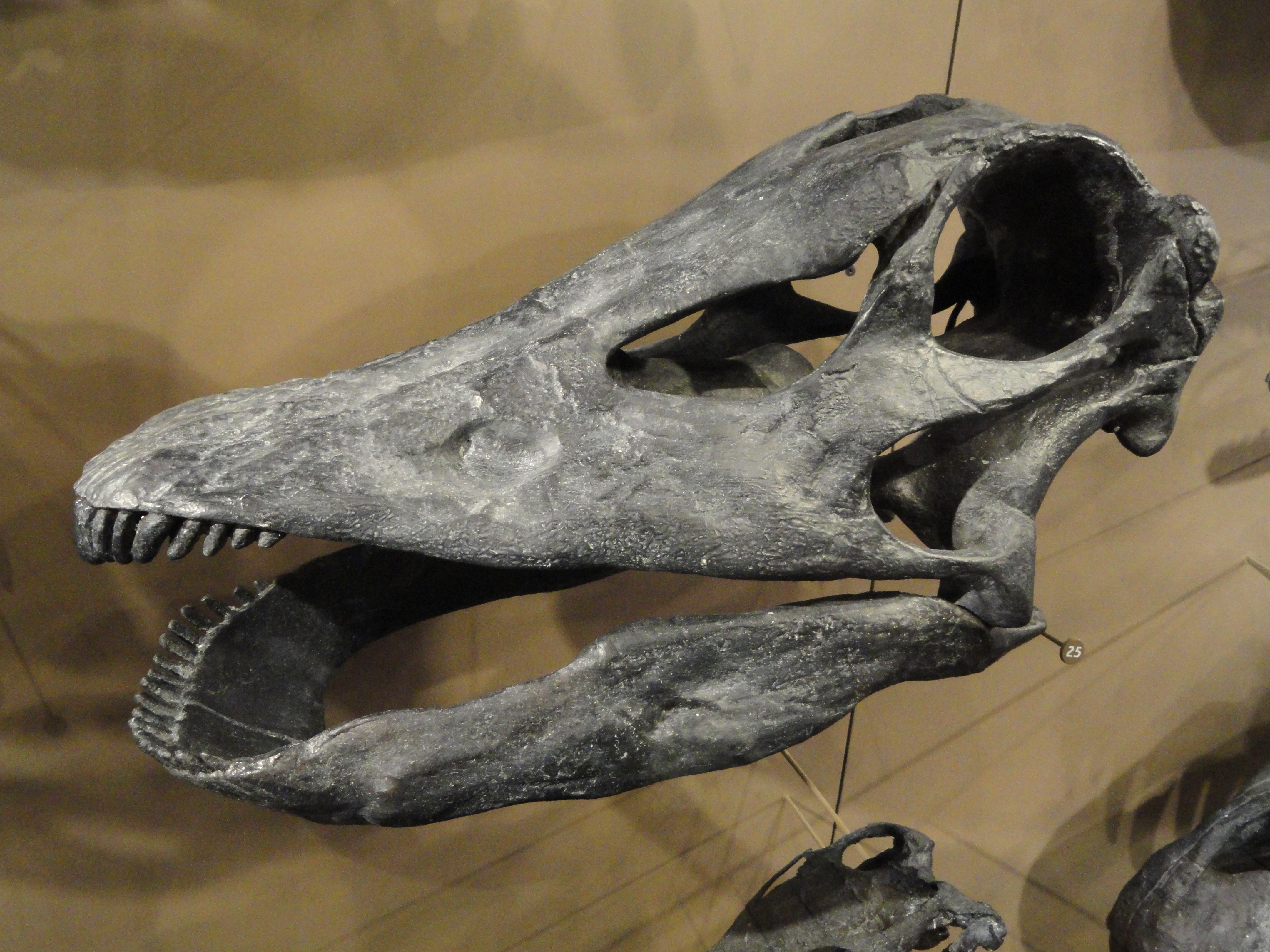 Fossil specimen in the Natural History Museum of Utah, Salt Lake City, Utah, USA.